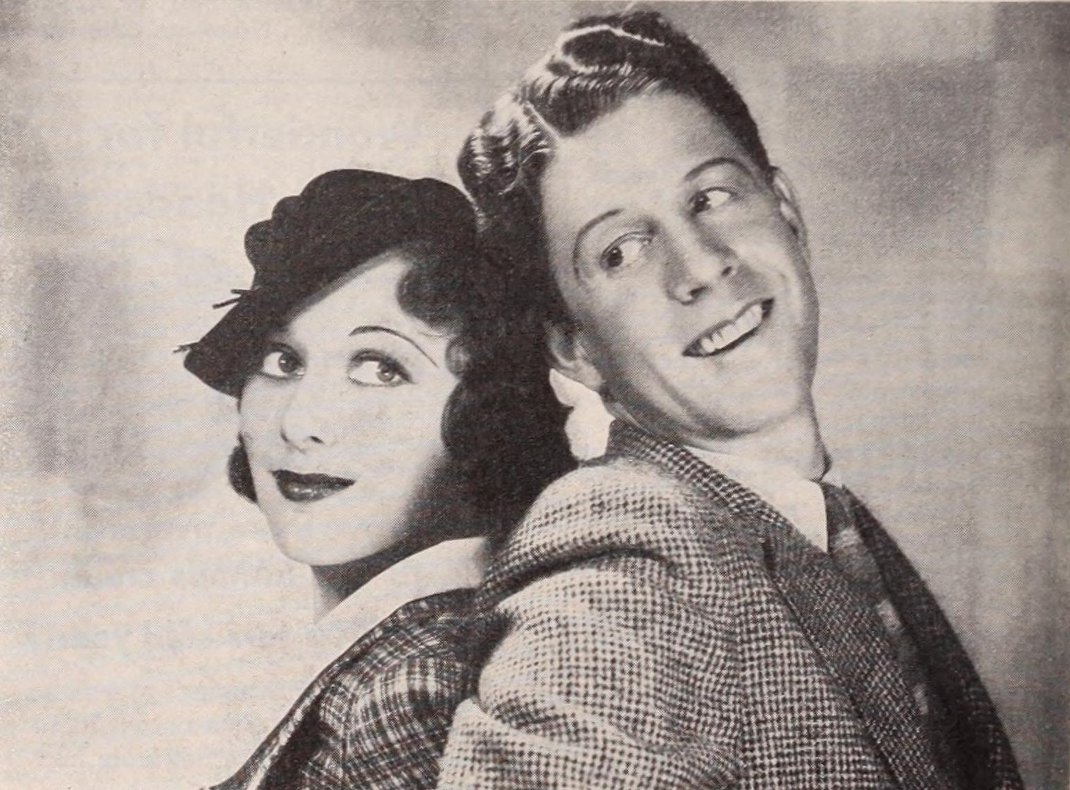 Radio Stars, Feb. 1935.